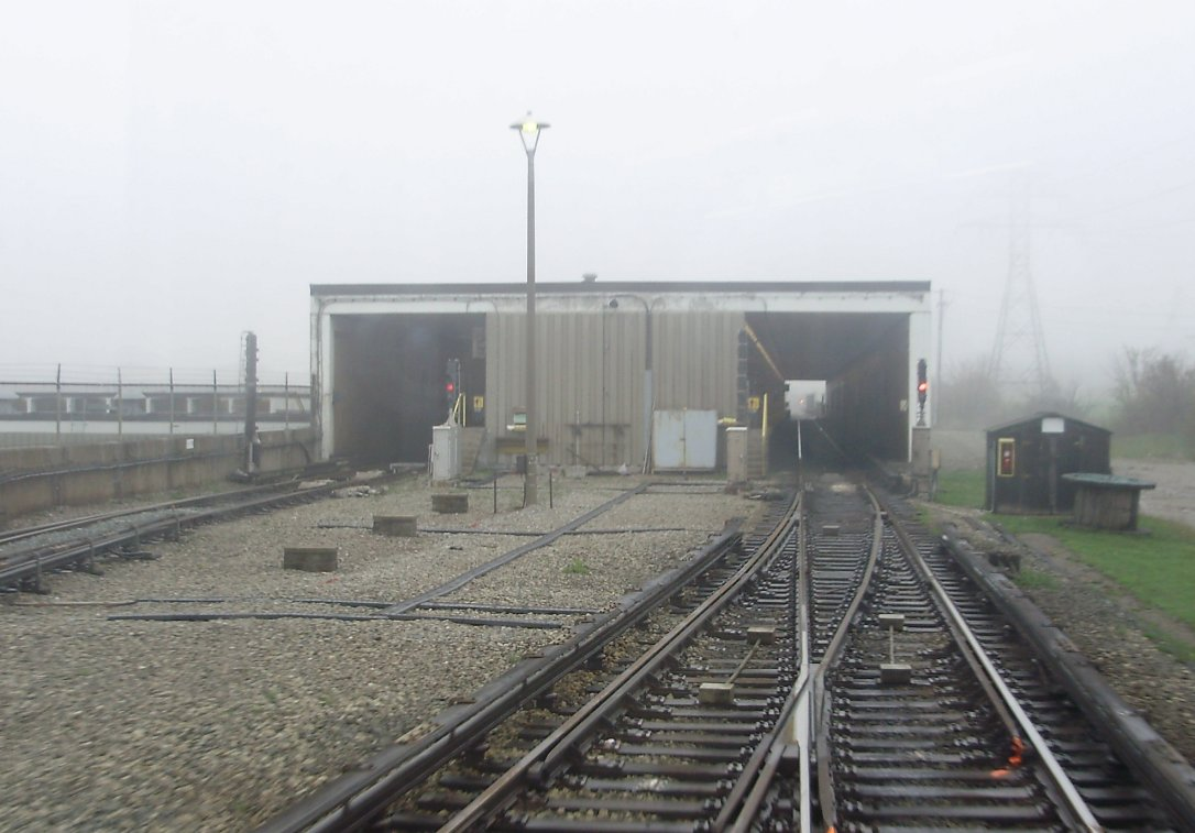 A view of Warden Station, as seen from the front car of an eastbound subway train.